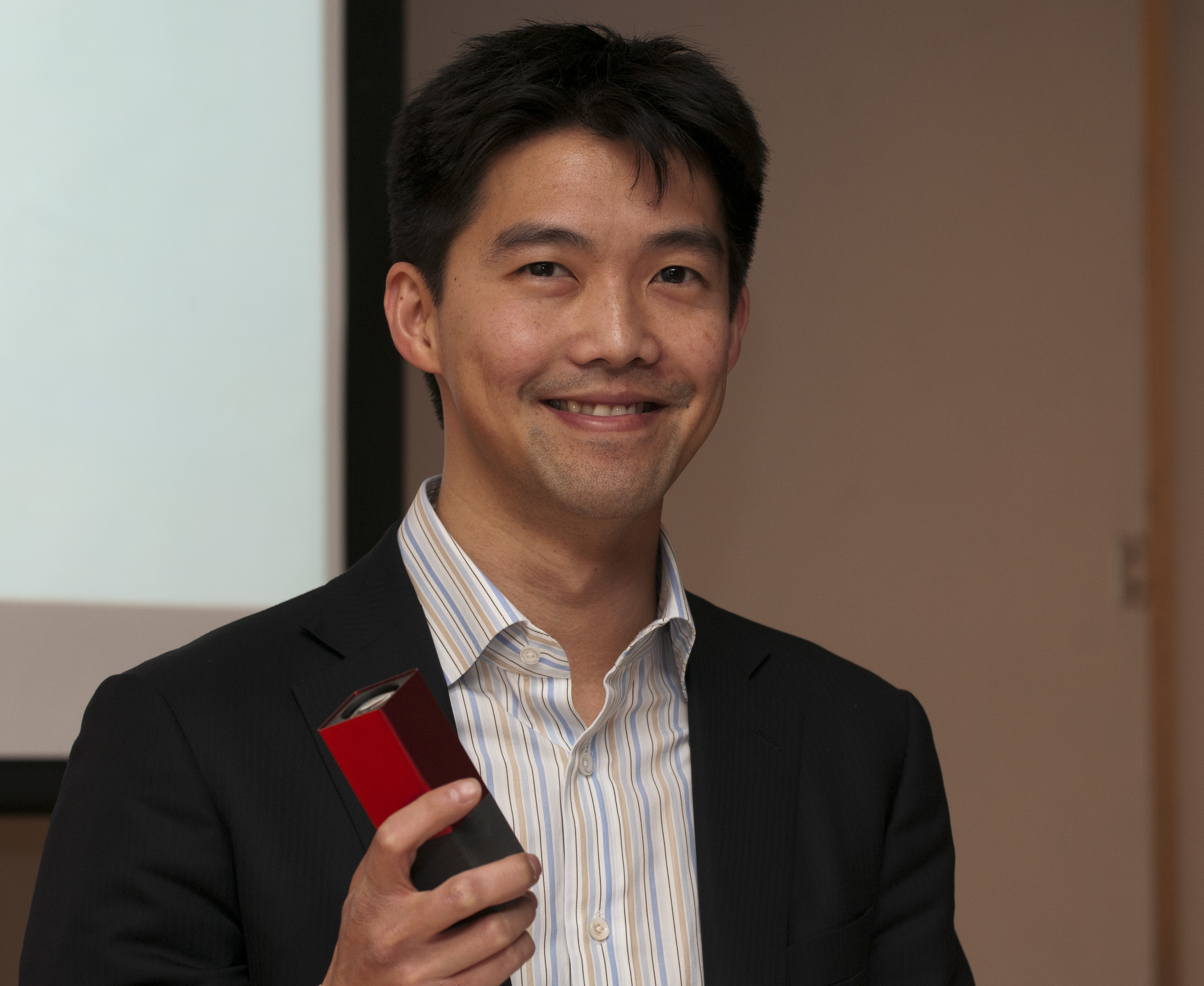 Ren Ng holding a Lytro light field camera, about to begin a presentation on Lytro at HP Auditorium, Soda Hall, University of California, Berkeley. The unit was fully functional; at this time the cameras were on preorder but not quite yet shipping.